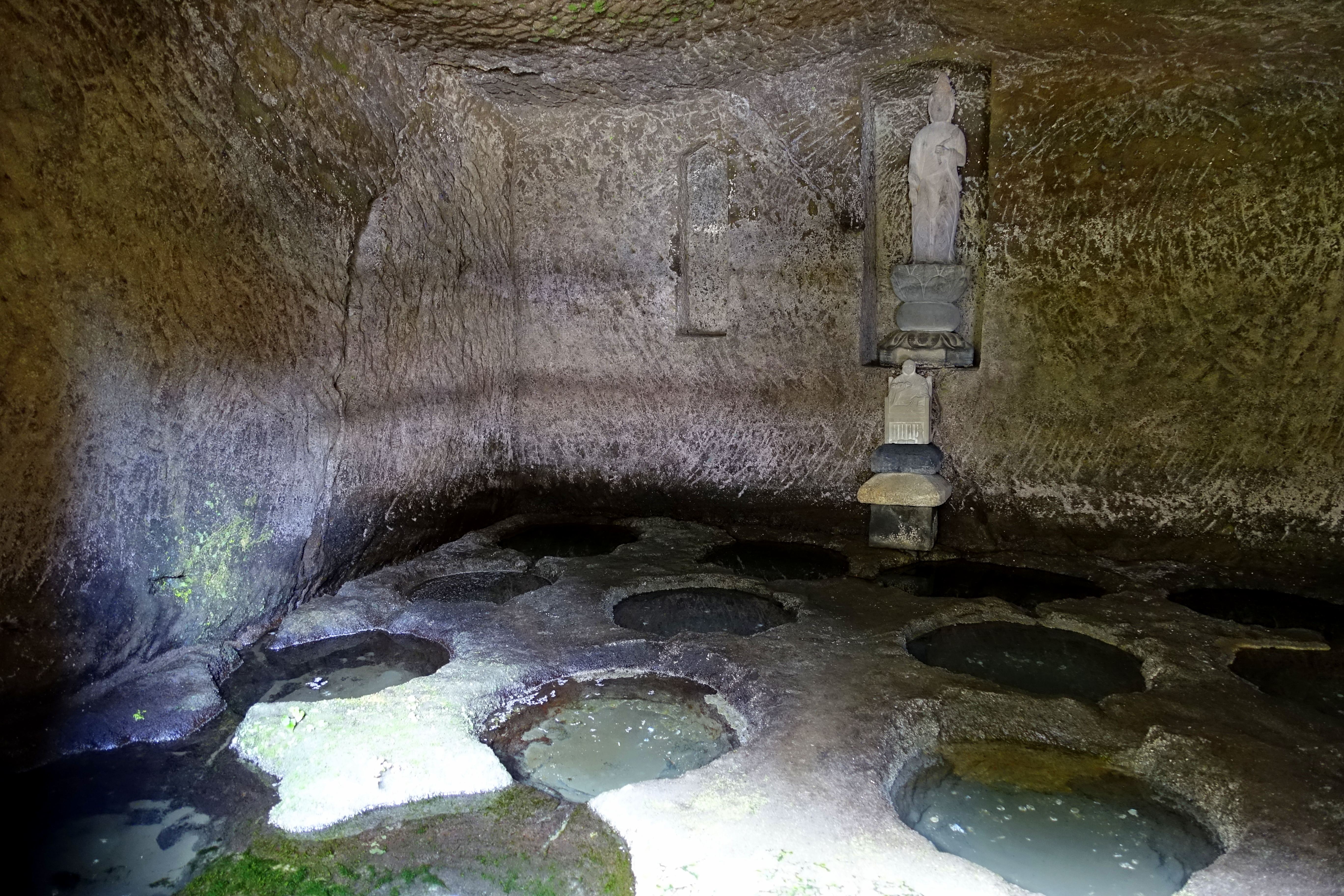 Kaizo-ji Temple (海蔵寺) - Kamakura, Kanagawa, Japan.